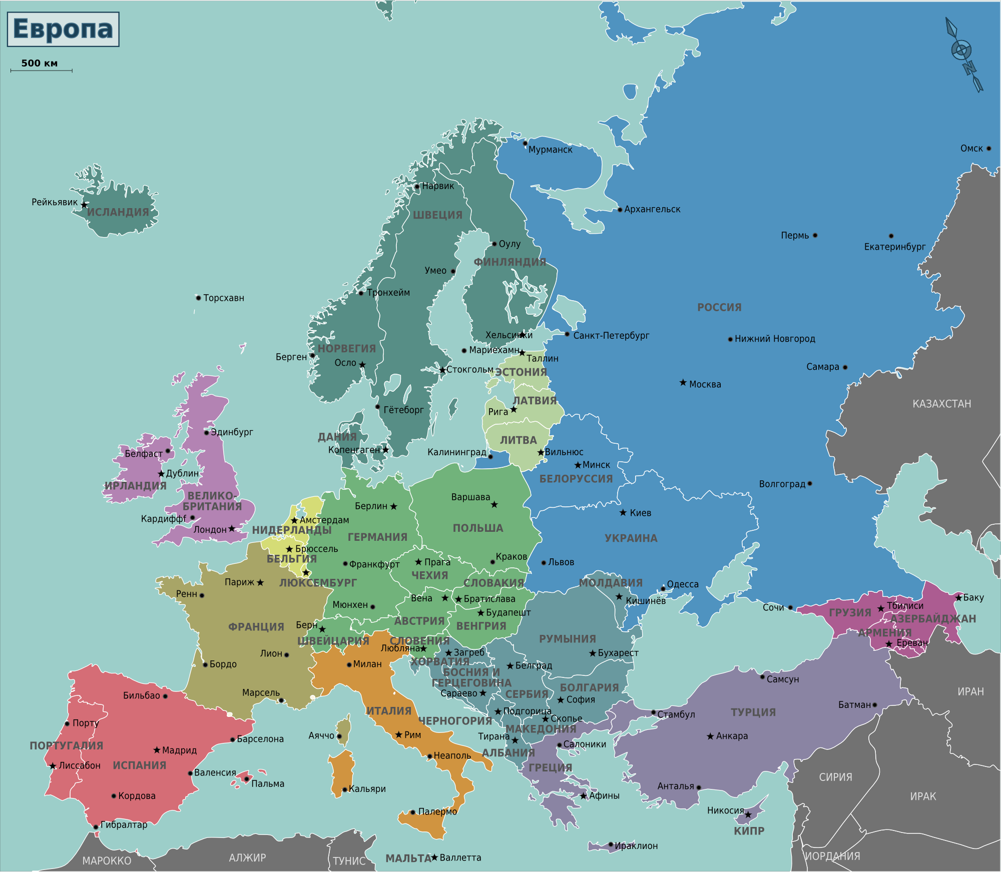 Map of Europe for use on Wikivoyage, Russian version